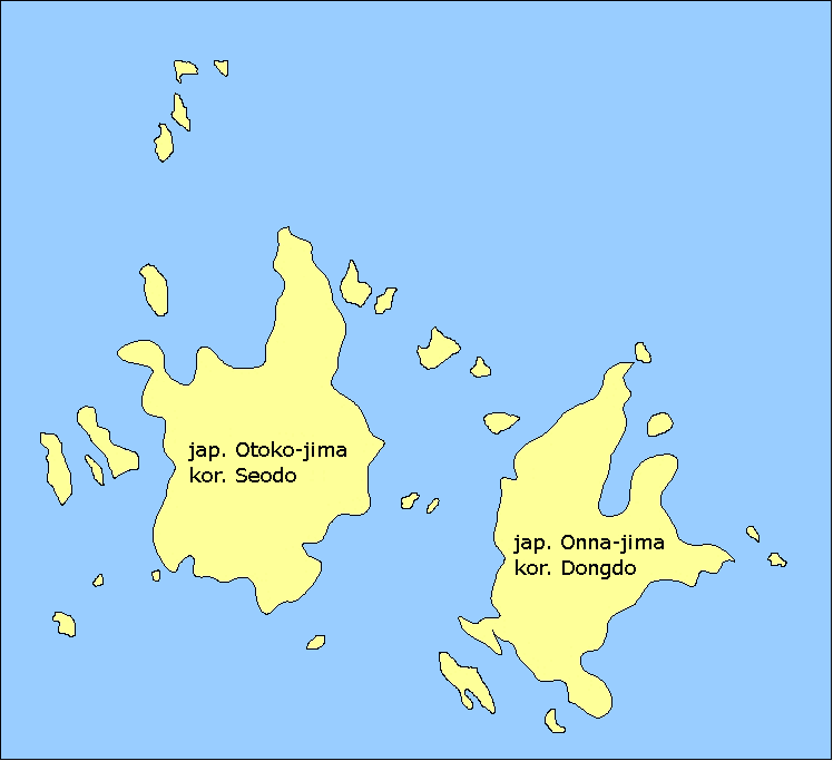 Description: Map of the Liancourt Rocks (disputed Rocks between Japan and South Korea) showing the two main islets and some of the minor ones. *Source: Drawn myself. Changes in derivative work: Abbreviations (ja./ko.) unknown in German language: Changed to jap./kor.